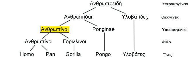 Homininae family tree diagram